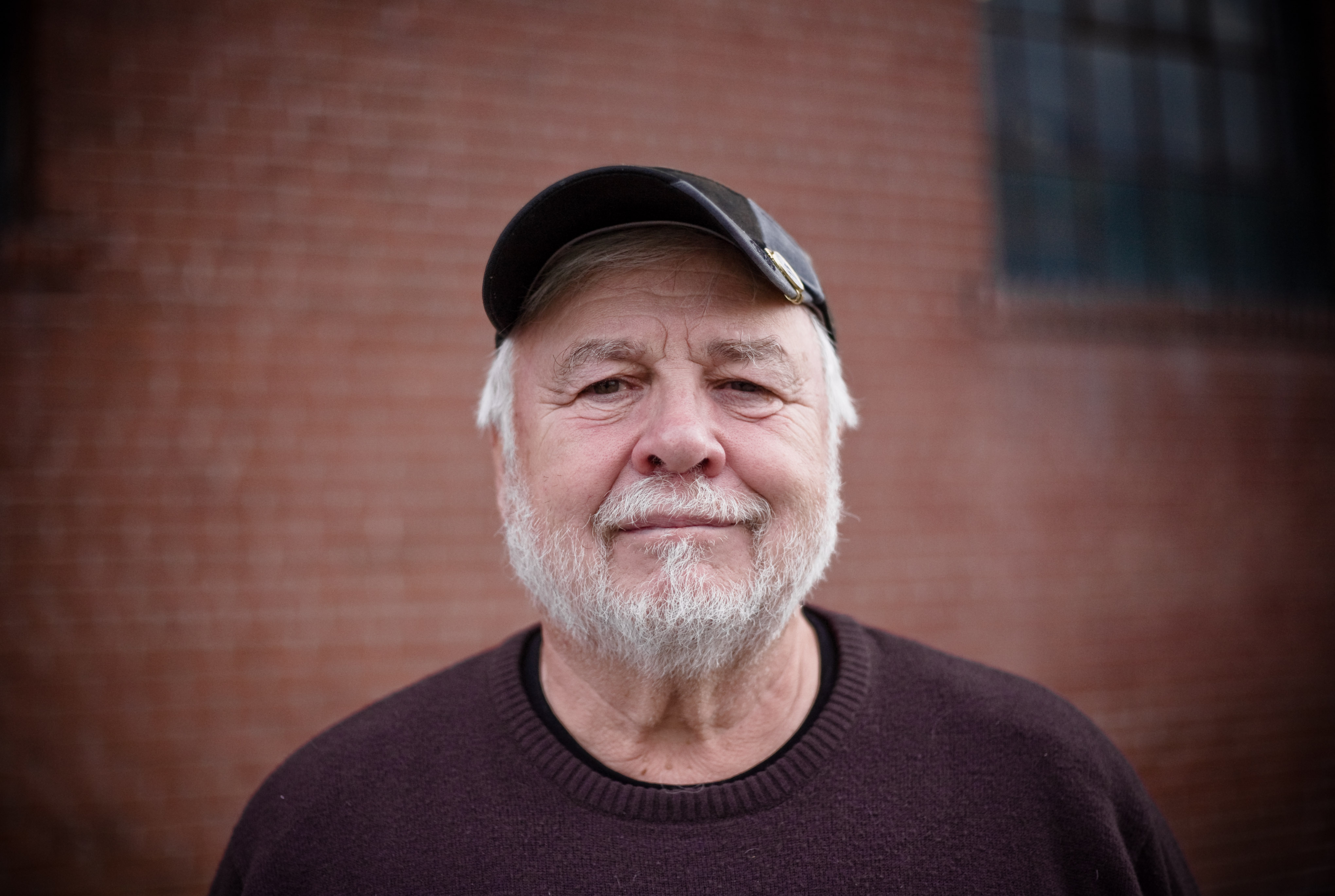 Portrait of Donald Shebib taken in Toronto while shooting the sequel to Goin’ Down the Road.